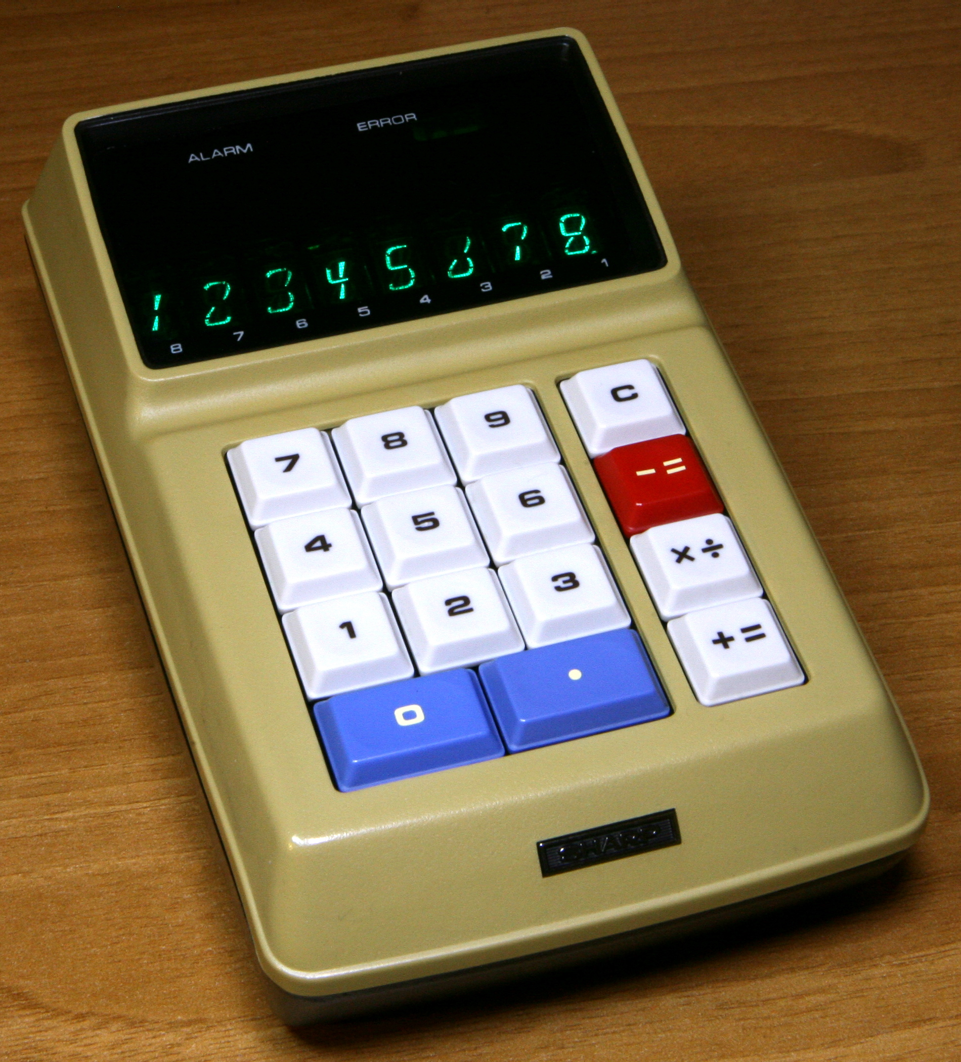 Sharp calculators Electronics Corporation introduced end of the year 1970 the first portable, battery four-functions operated calculator. The calculating board with 4 Rockwell LSI integrated circuits, and a timer integrated circuit. Display is 8 digits green fluorescent tubes.